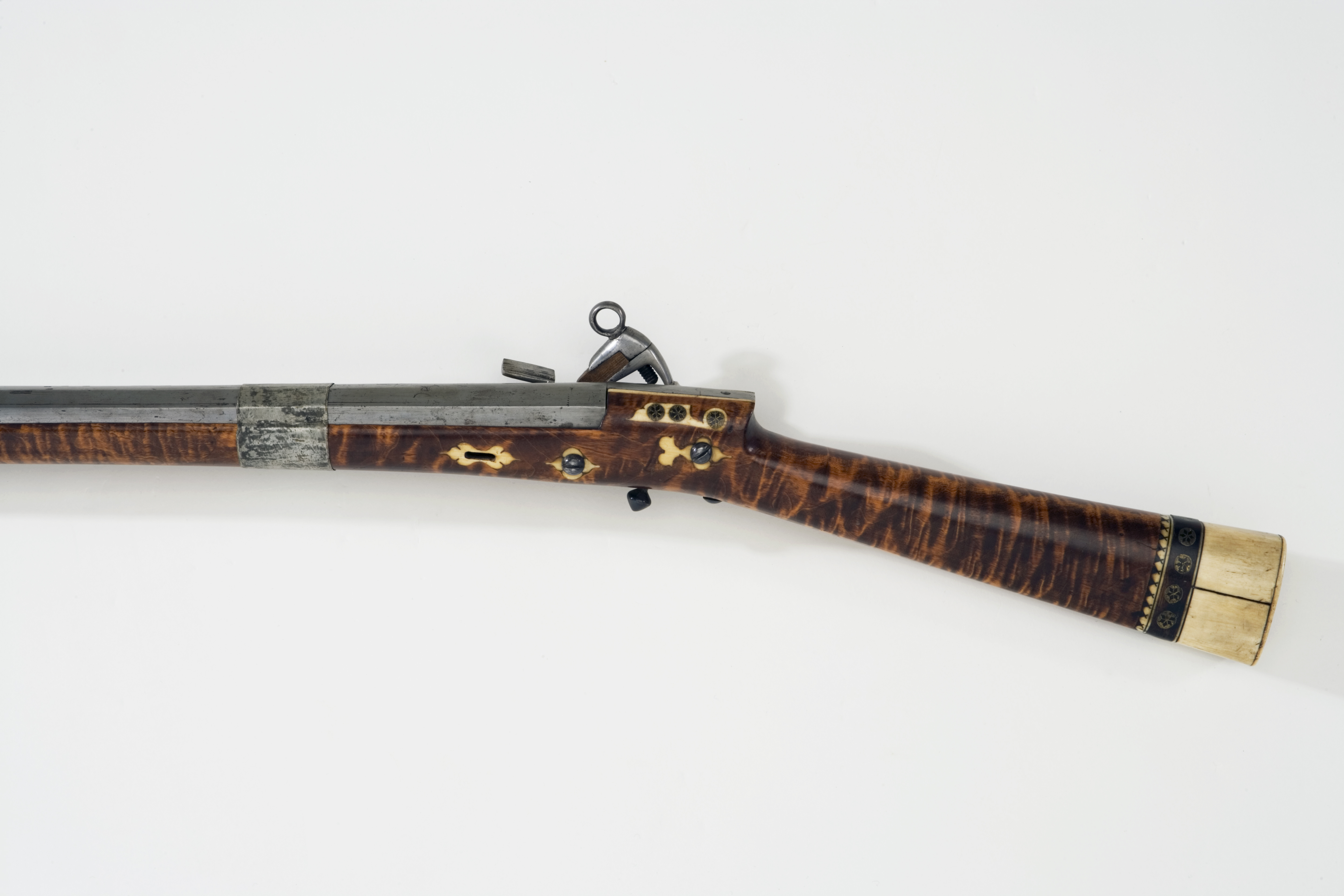 Note: For documentary purposes the original description has been retained. Factual corrections and alternative descriptions are encouraged separately from the original description.snapplåsbössa - LRK 7710, v sida Nyckelord: Bössa, Dekorerade, Föremålsbild, Snapplås